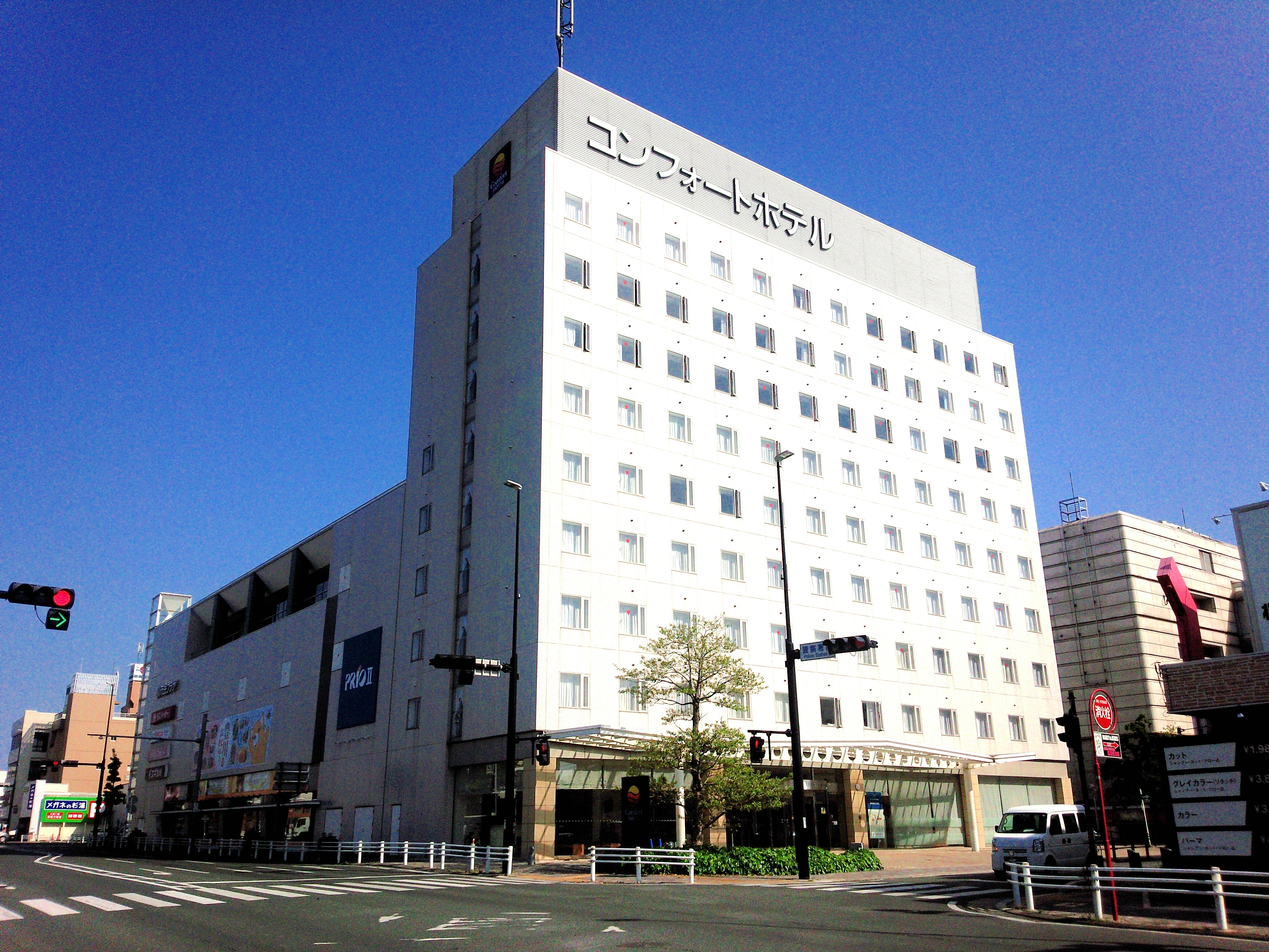 Comfort Hotel Toyokawa (コンフォートホテル豊川), located at 3-301 Suwa, Toyokawa, Aichi, Japan